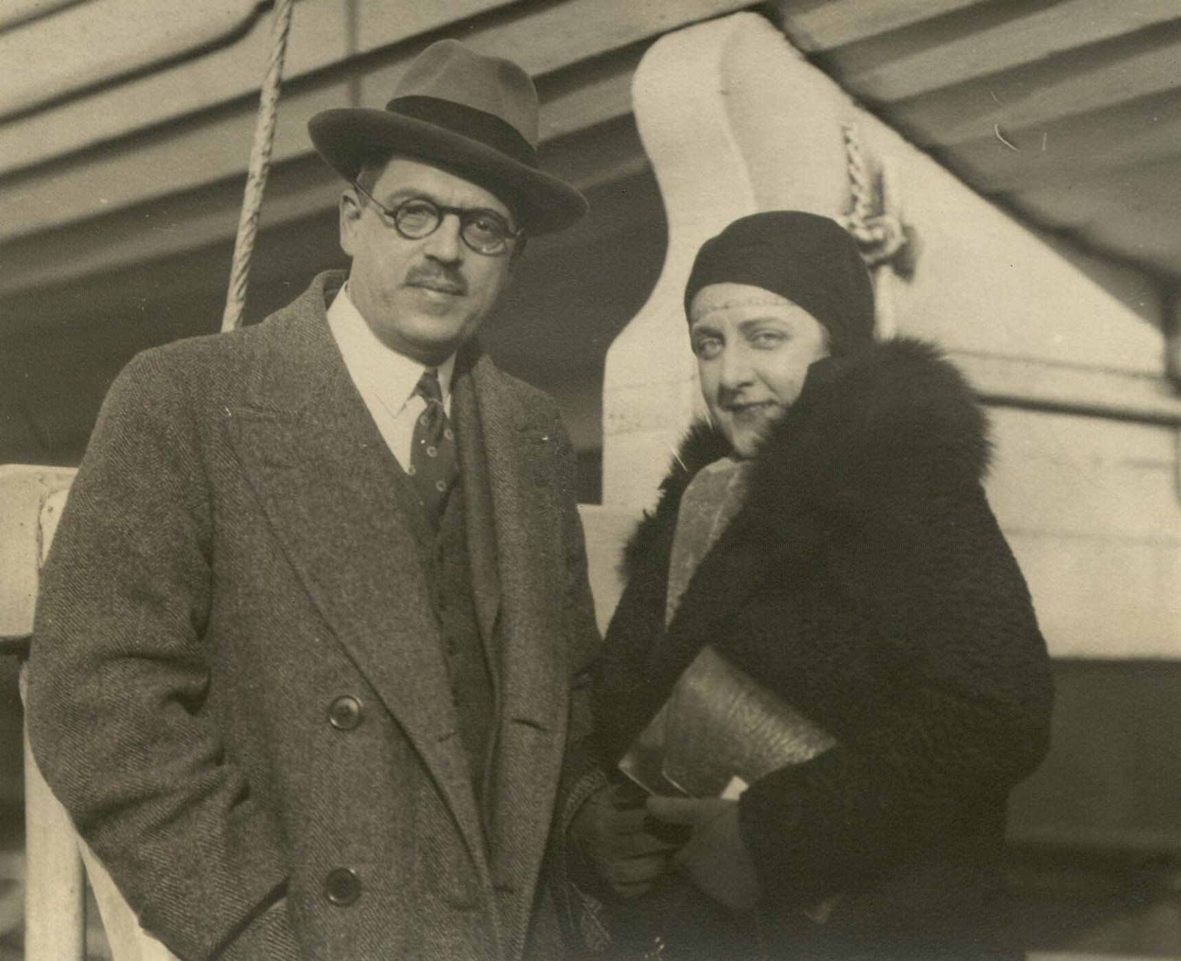 Picture of Andre Morize standing next to Ruth Morize as they travel. Andre is in a suit with a hat, and Ruth is in a coat with a purse and hat.